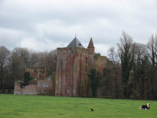 Rune of castle Brederode, Santpoort-Zuid